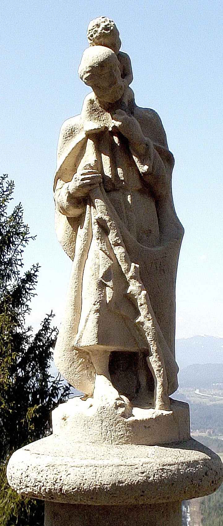 Christophorus-sculpture by Switbert Lobisser, Kathreinkogel, Schiefling am See, district Klagenfurt-Land, Carinthia, Austria